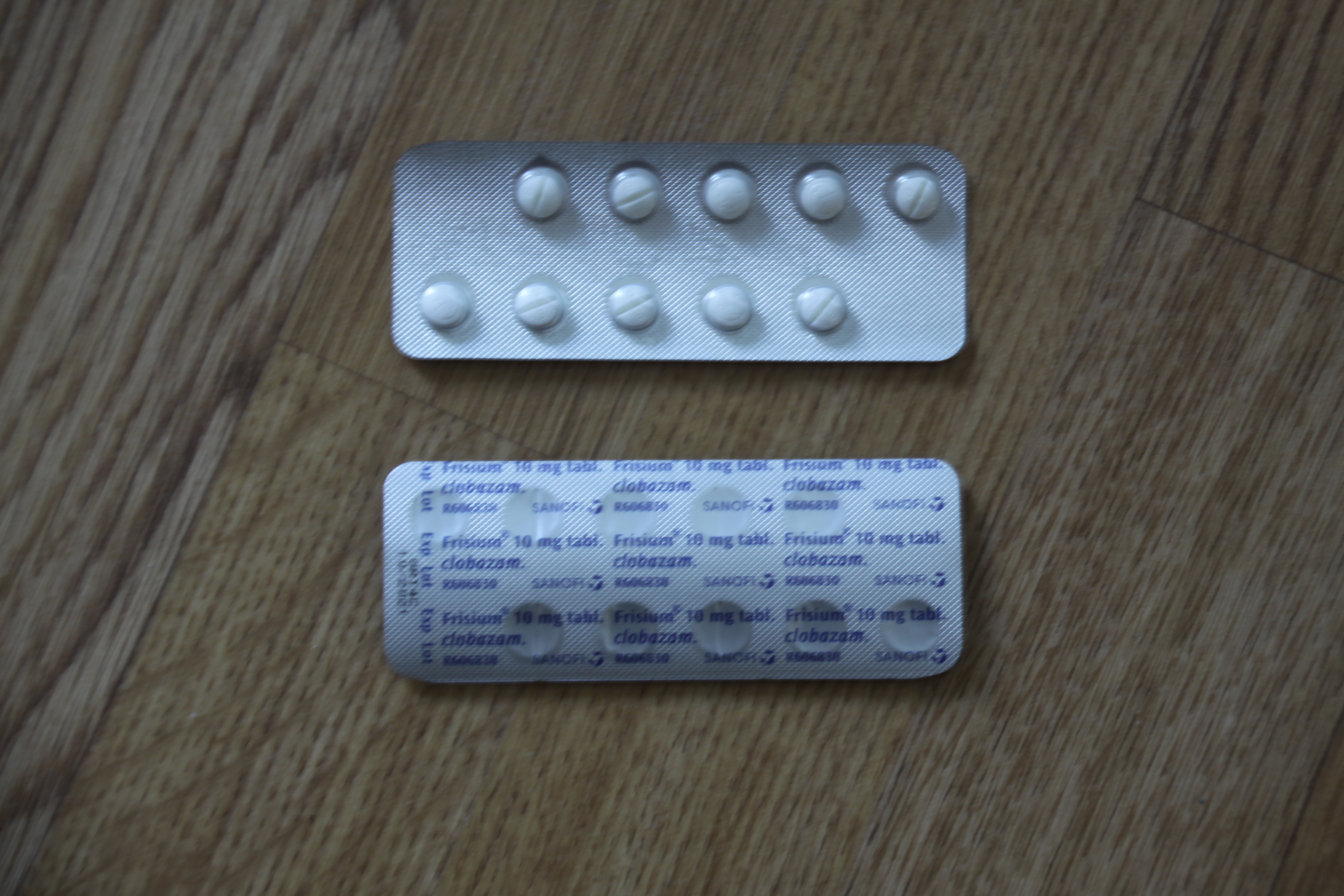 Frisium 10mg -clobazamtablets.